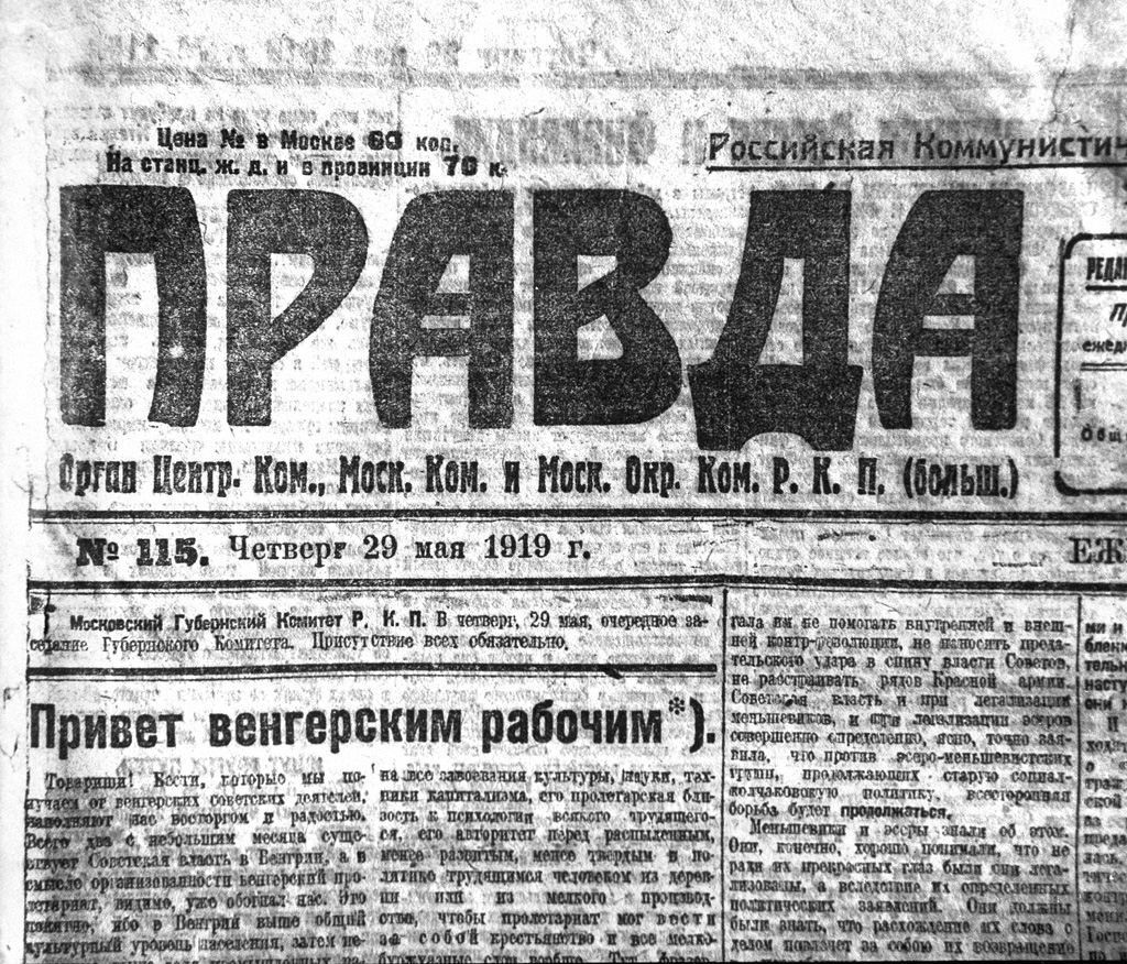 “Pravda newspaper, 29 May, 1919”. A page of the Pravda Newspaper issued on 29 May, 1919.